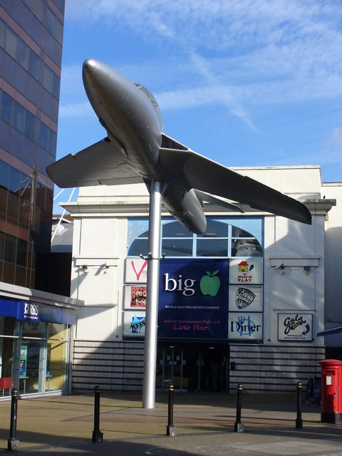 Plane Overhead, Woking. Model aeroplane outside the "Big Apple" in downtown Woking, Chobham Road.